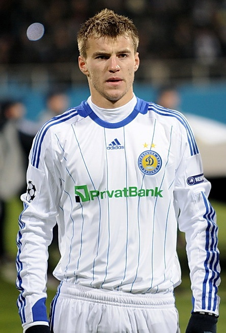 Andriy Yarmolenko